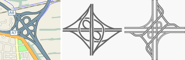 Combi of road interchanges